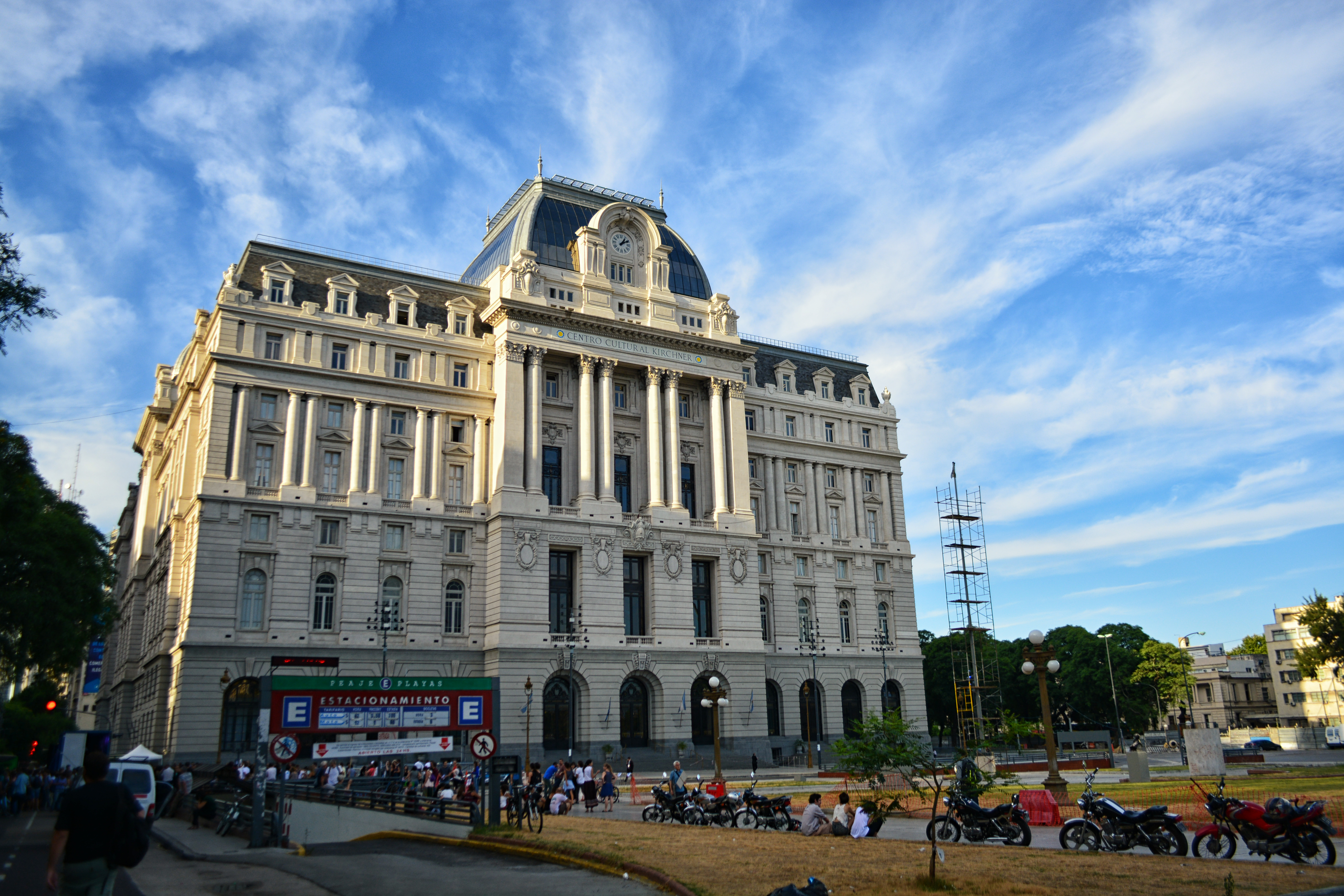 Centro Cultural Kirchner 2016, Buenos Aires